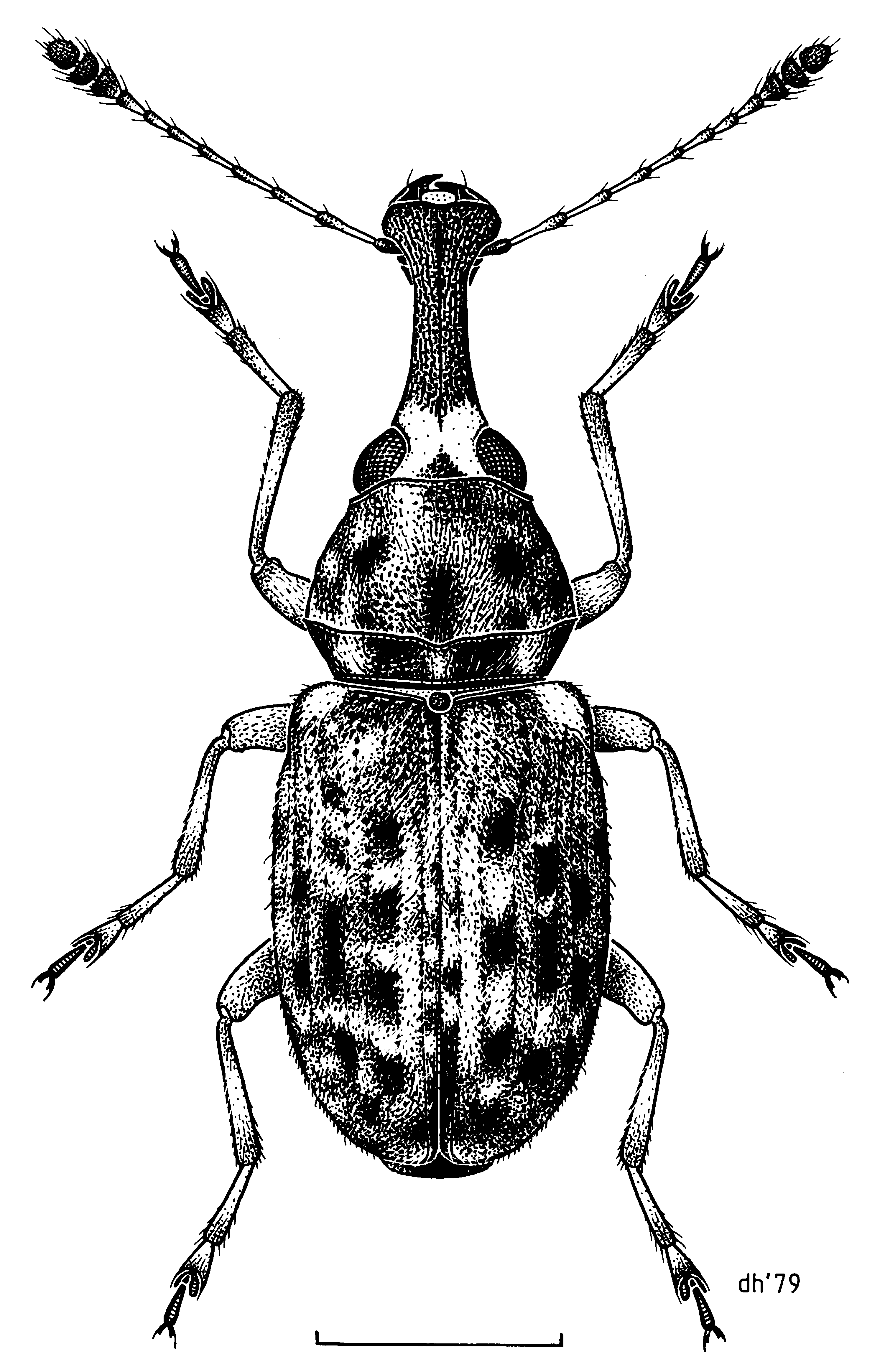 (Coleoptera: Anthribidae) Helmoreus sharpi, female, illustrated by Des Helmore.